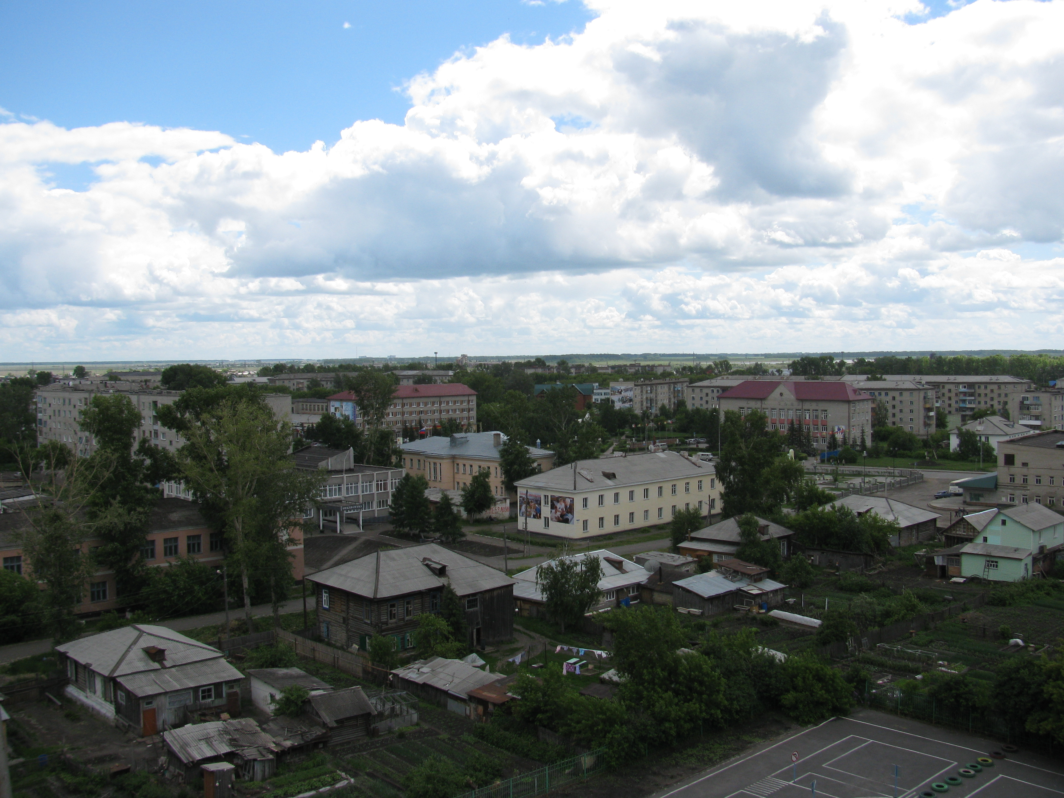 Kuybyshev